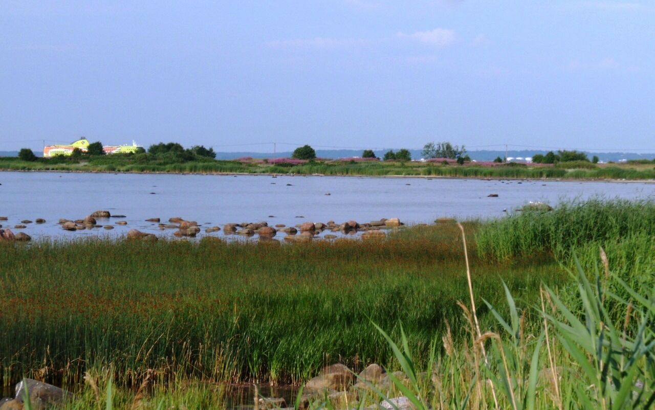 Saartevahe haak Suure- ja Väikse-Paljassaare vahel.